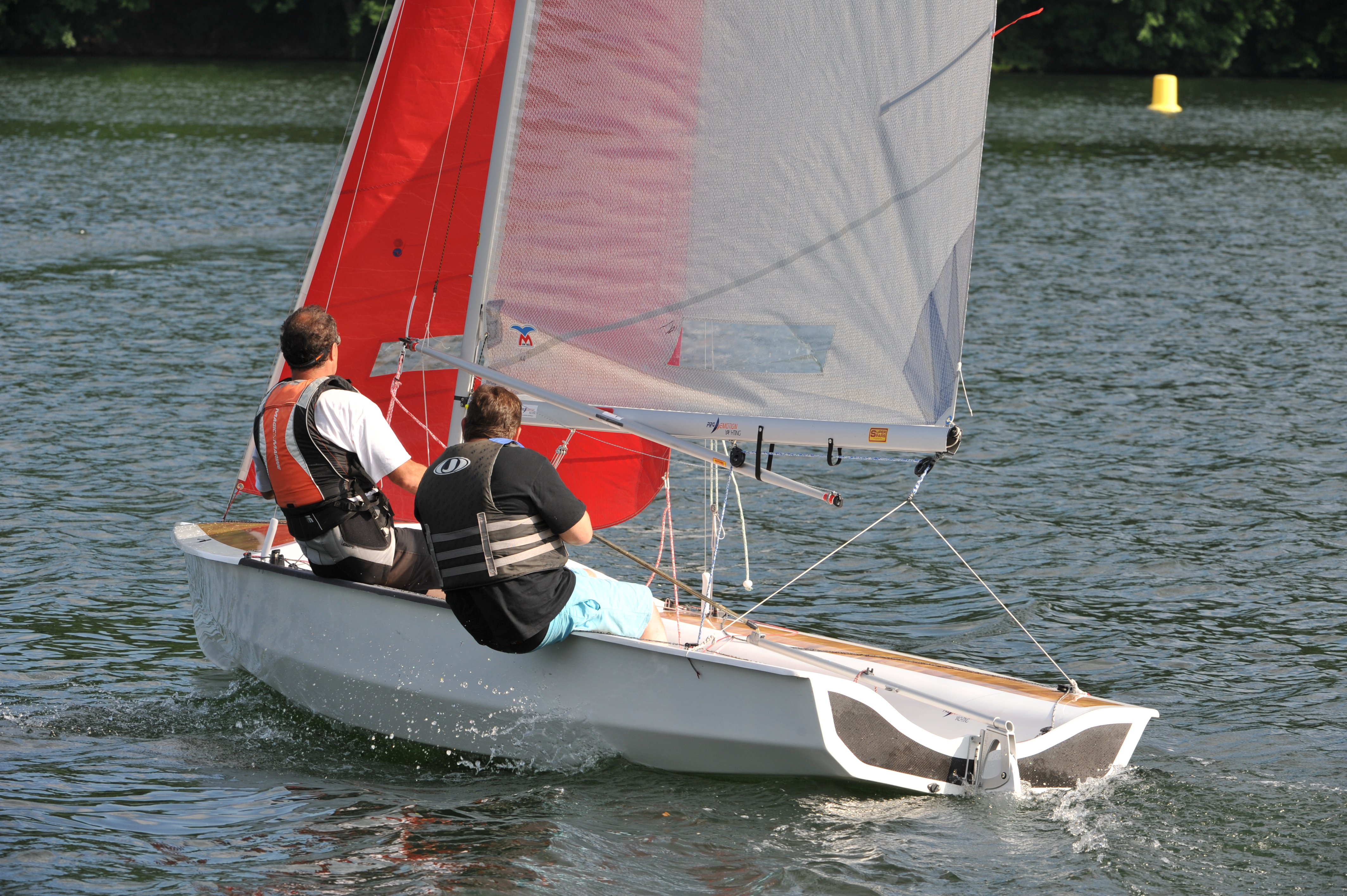 Ponant nouvelle génération (époxy/balsa)